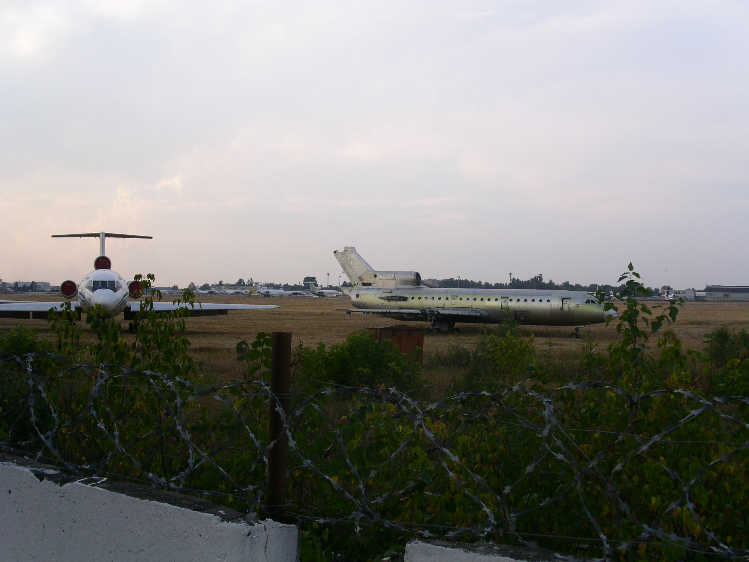 Plane wrecks at Moscow Bykovo Aeroport.